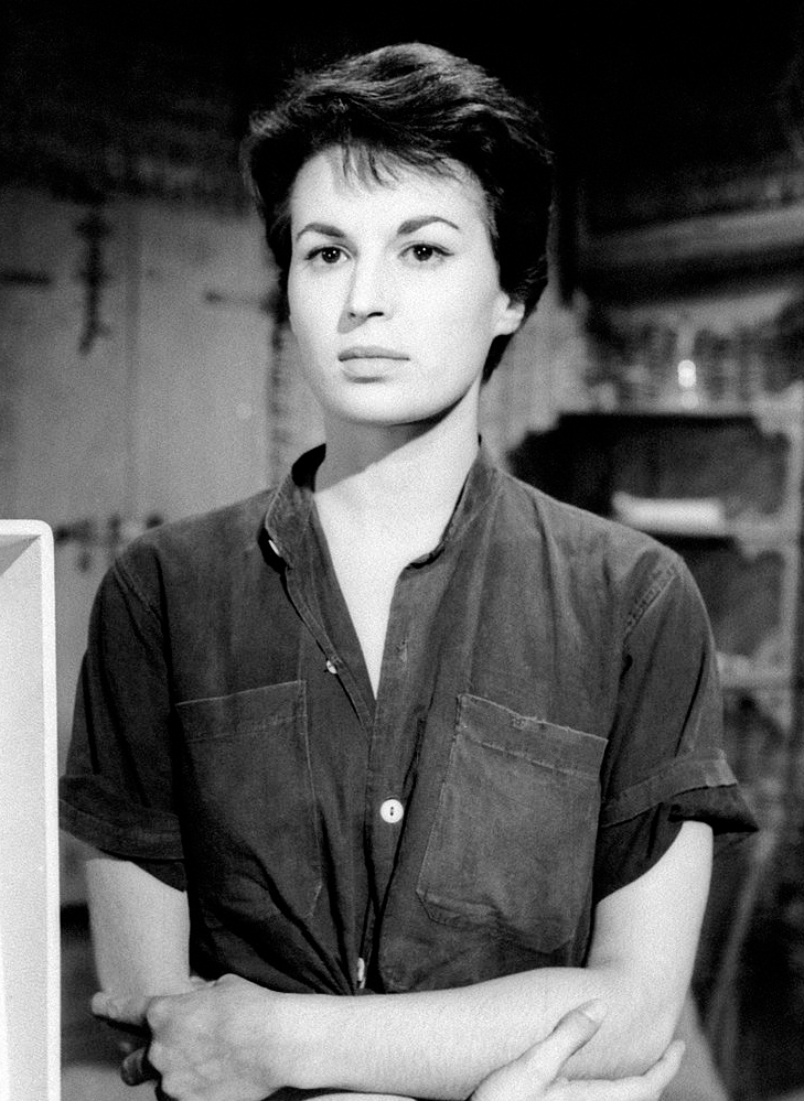 Italian actress Silvana Mangano acting in the film This Angry Age. 1956